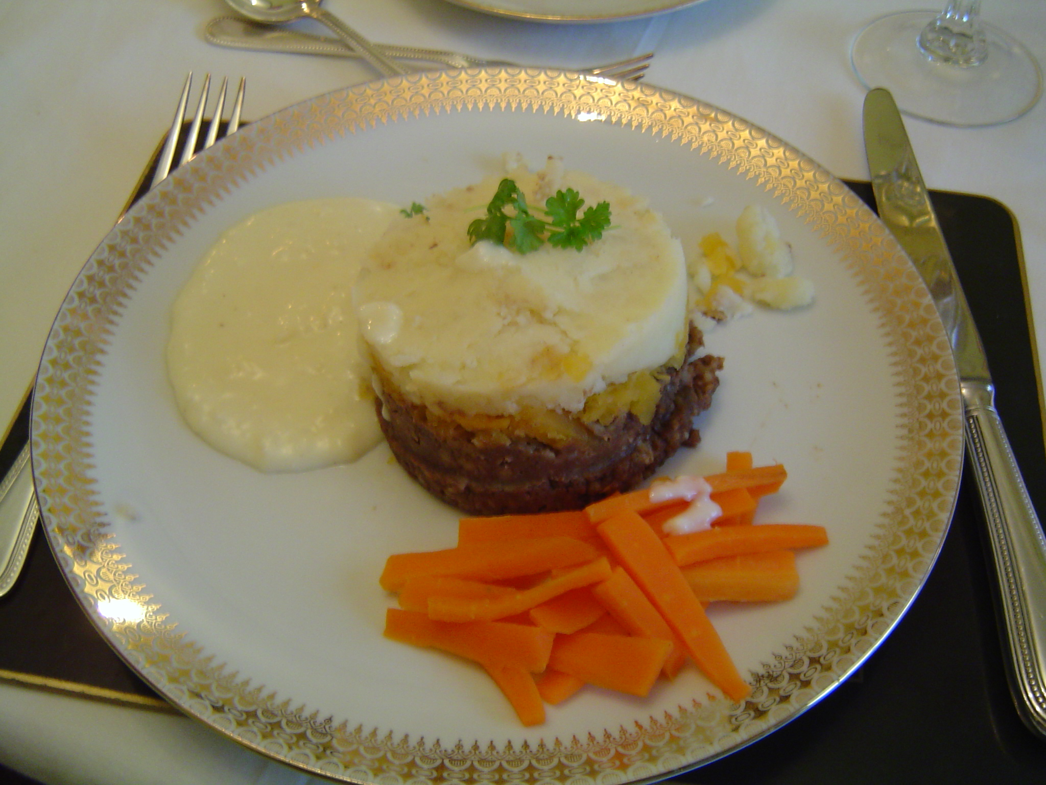 Haggis, Totties, and Neeps with carrots and a fine whiskey sauce; prepared by Archie Paterson, Dunblane, Scotland